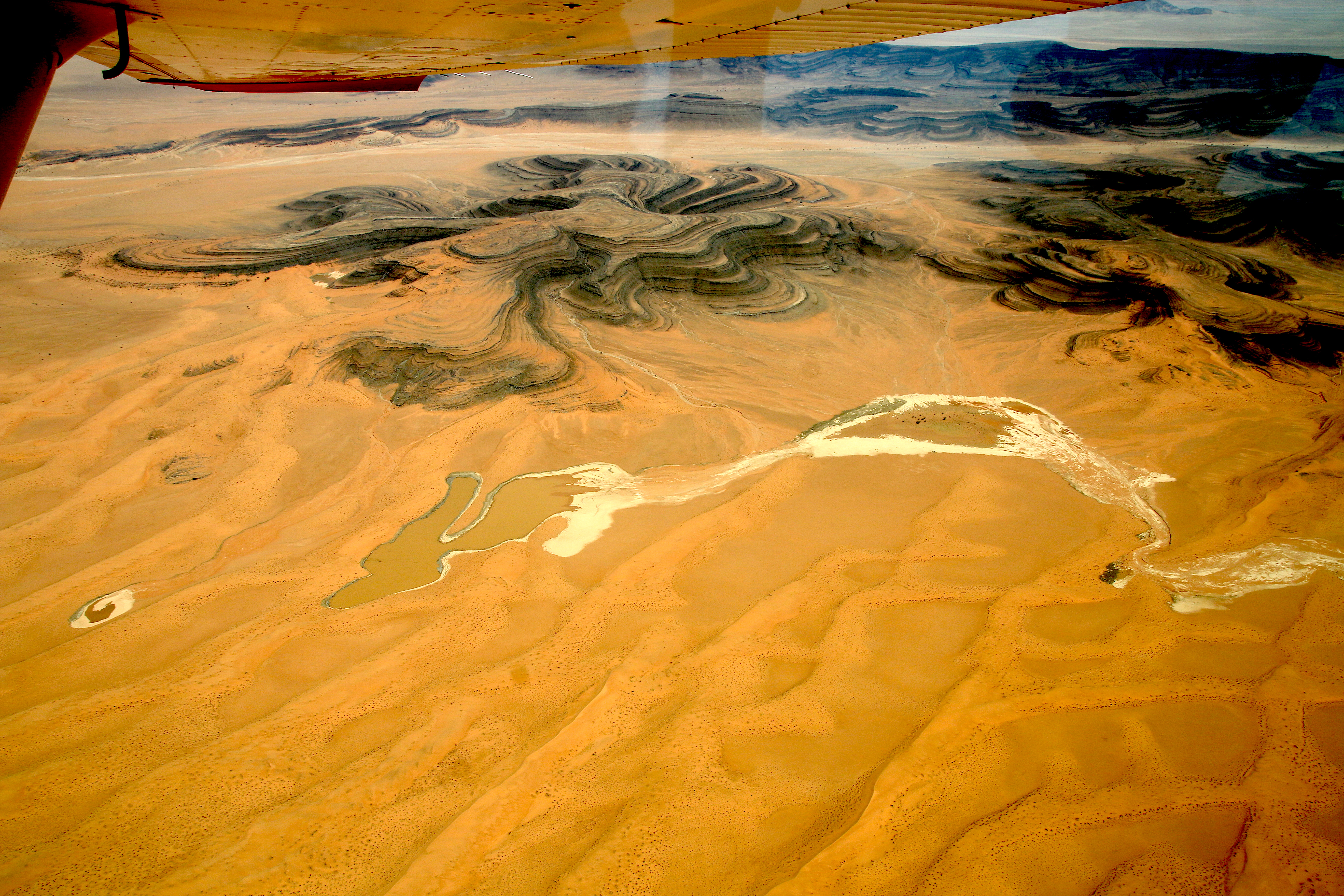 Diamond restricted area after rain (October 2018)